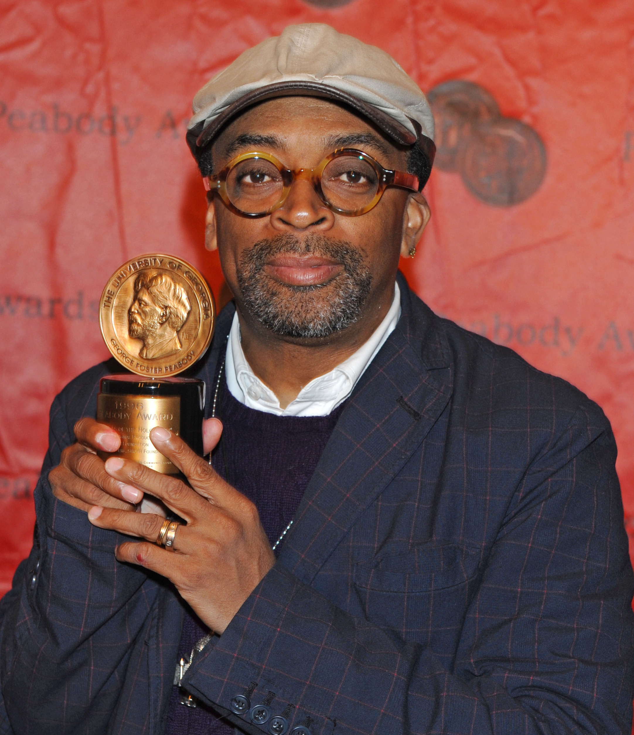 PHOTO CREDIT: ANDERS KRUSBERG / PEABODY AWARDS 70th Annual Peabody Awards Luncheon Waldorf=Astoria Hotel May 23, 2011